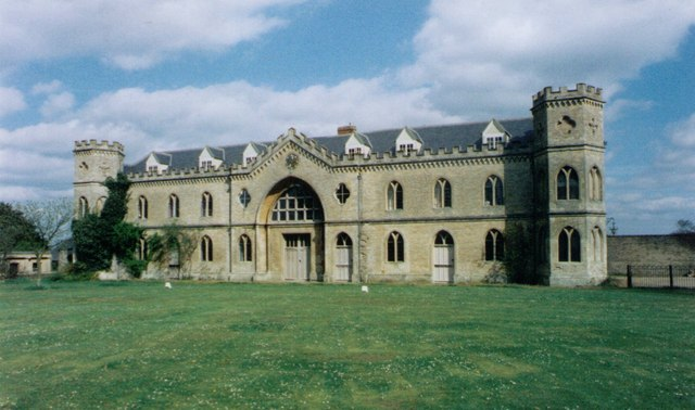 Former Manor House, Buckland, Oxfordshire (formerly Berkshire). Built about 1580 as a house. Converted into stables for Buckland House about 1757.